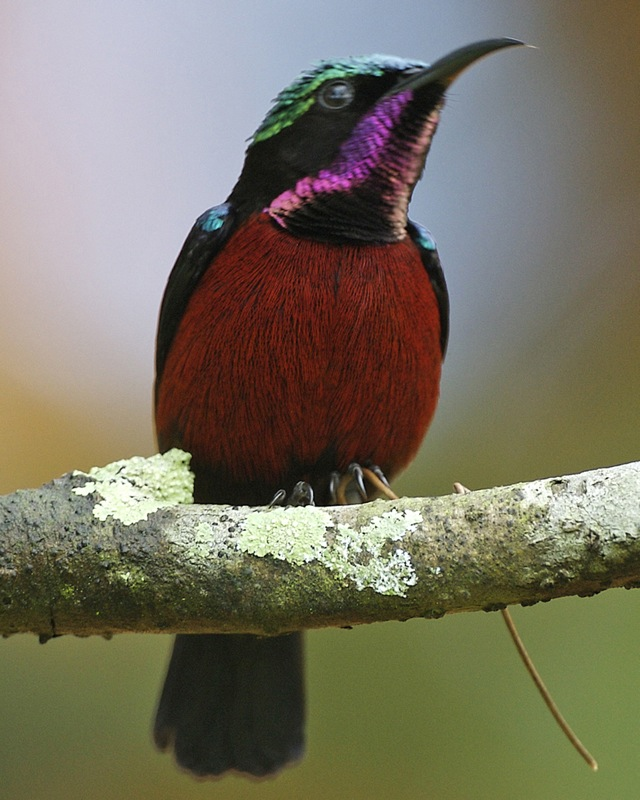 Purple-throated Sunbird (Leptocoma brasiliana. A male in the central catchment area, Singapore on 28 January 2008. Indonesian: Burung madu hitam gunung (Bangla:Moyna)